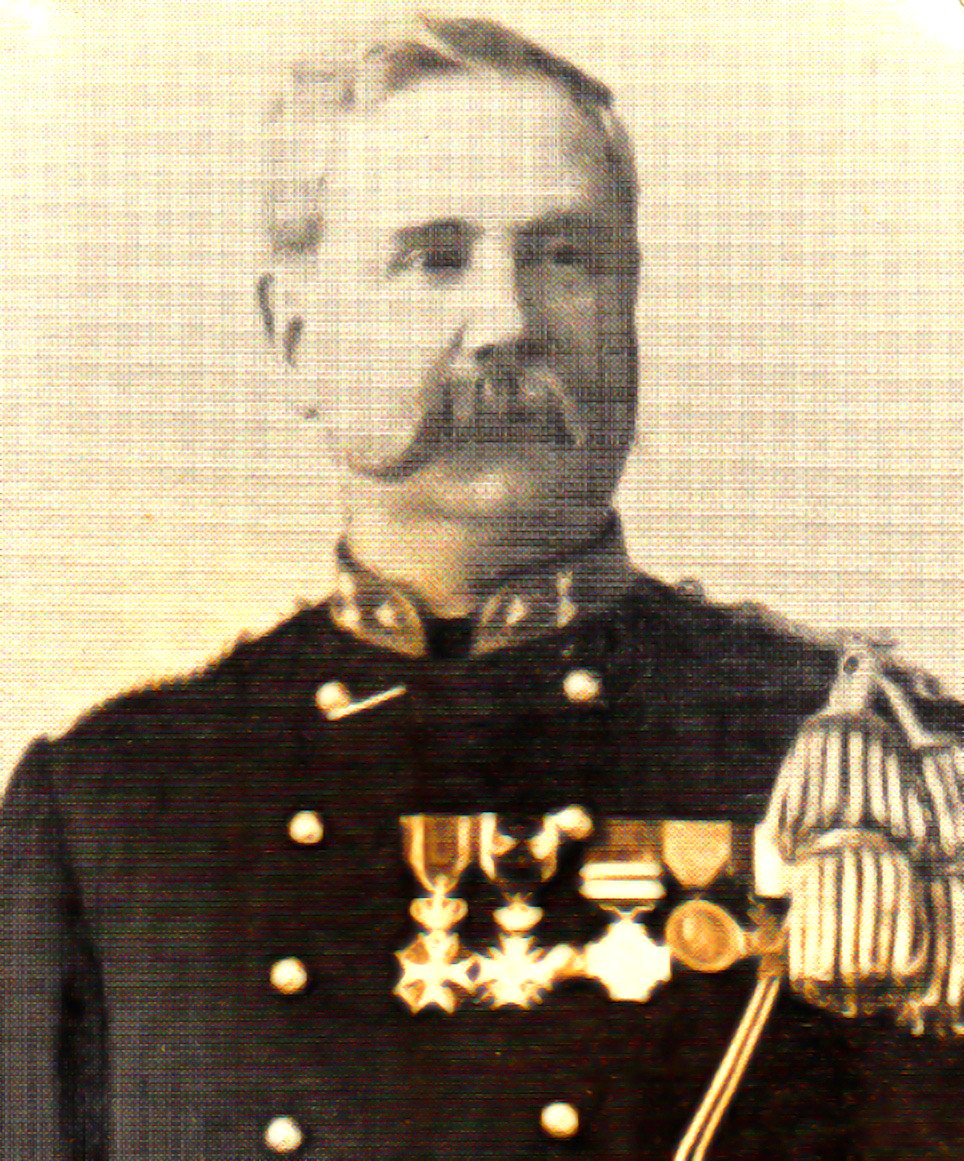 Generaal Borel